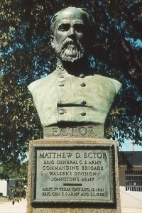 Brig. Gen. Matthew D. Ector, appointed August 23, 1862, a bronze bust by Anton Schaaf. Erected in 1915 at Vicksburg National Military Park.